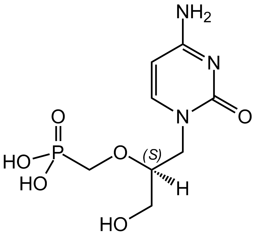 Cidofovir_Structural_Formulae